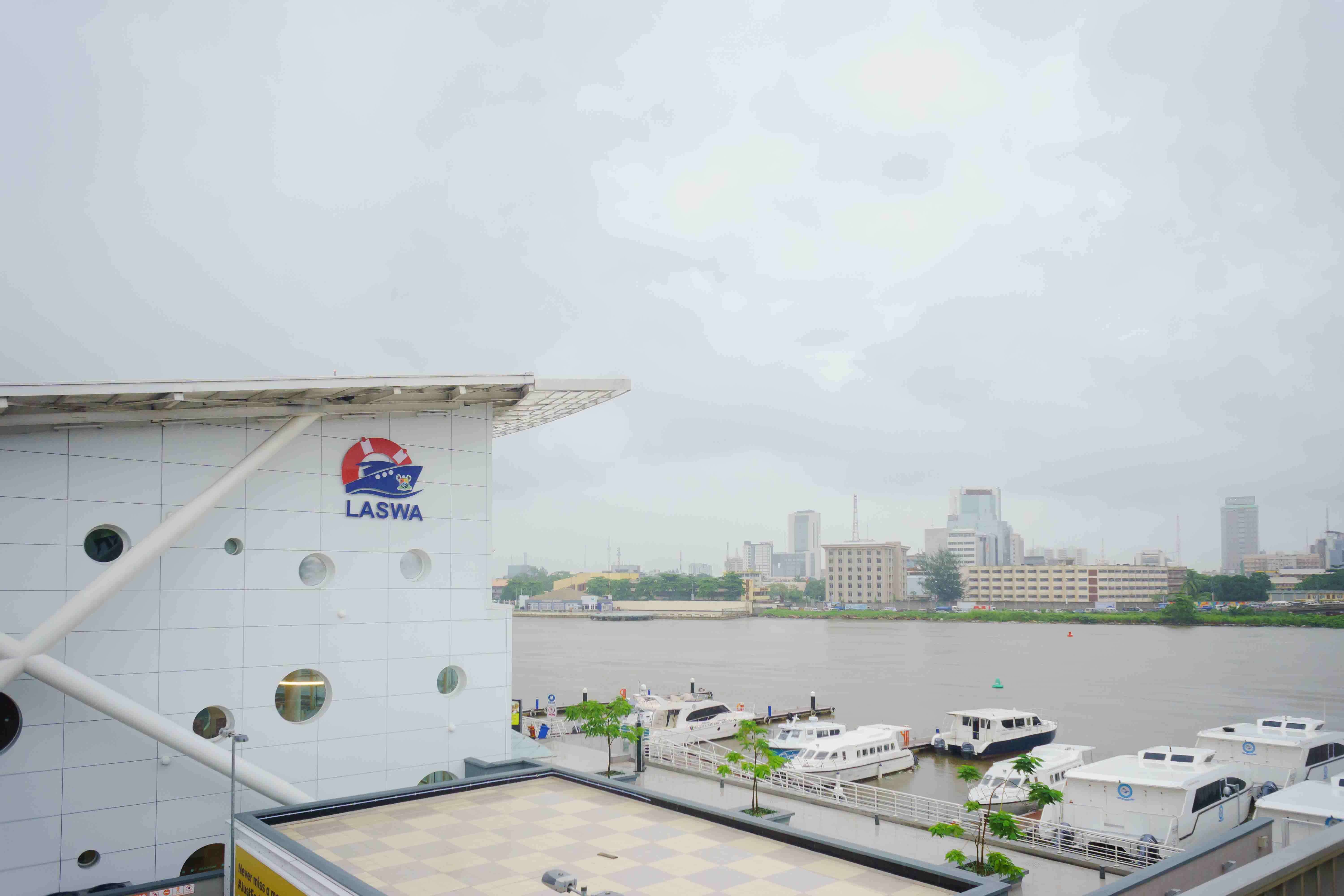 Notable landmarks in Lagos state